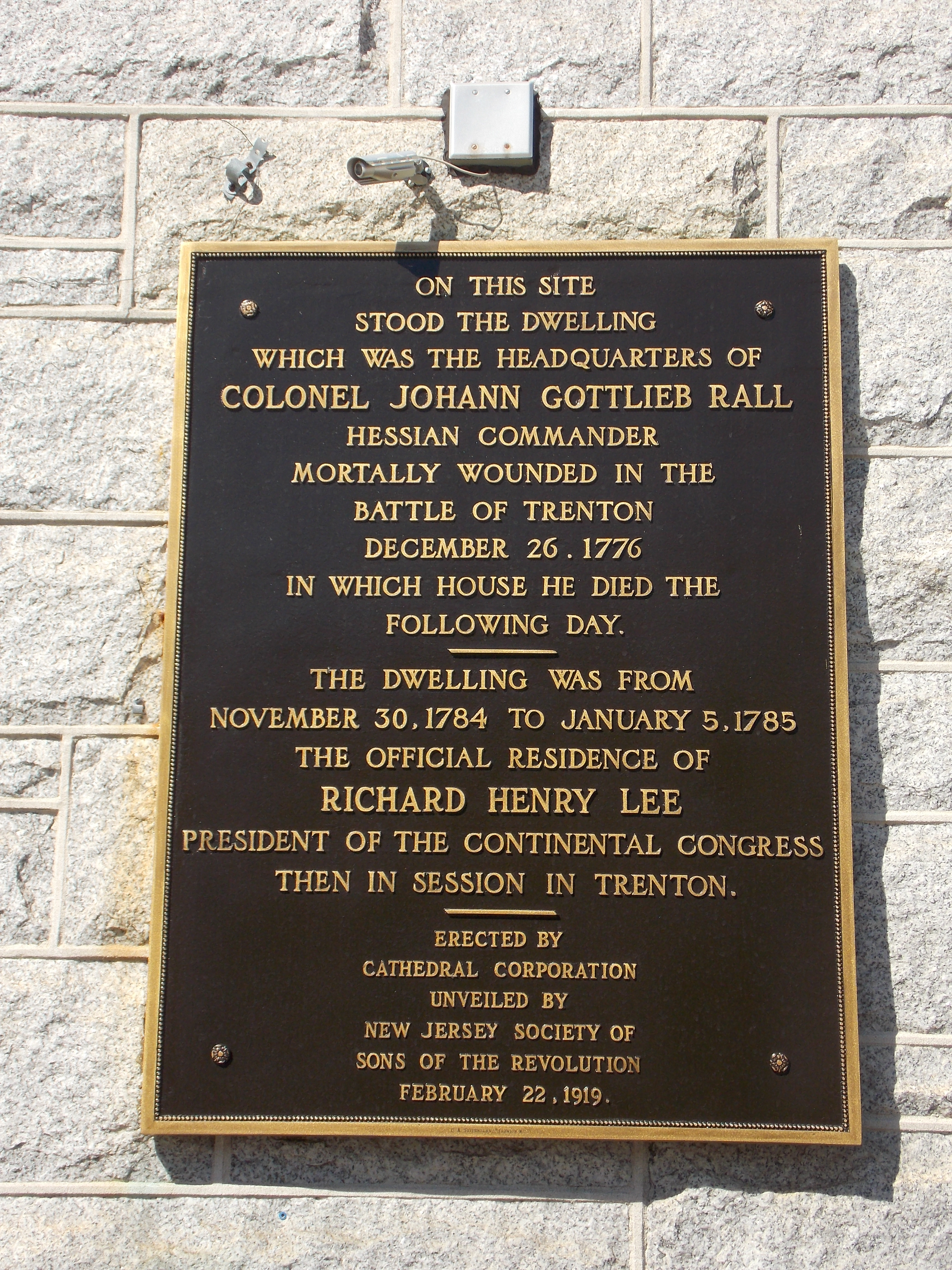 The plaque on the Cathedral of St. Mary of the Assumption in Trenton, New Jersey.